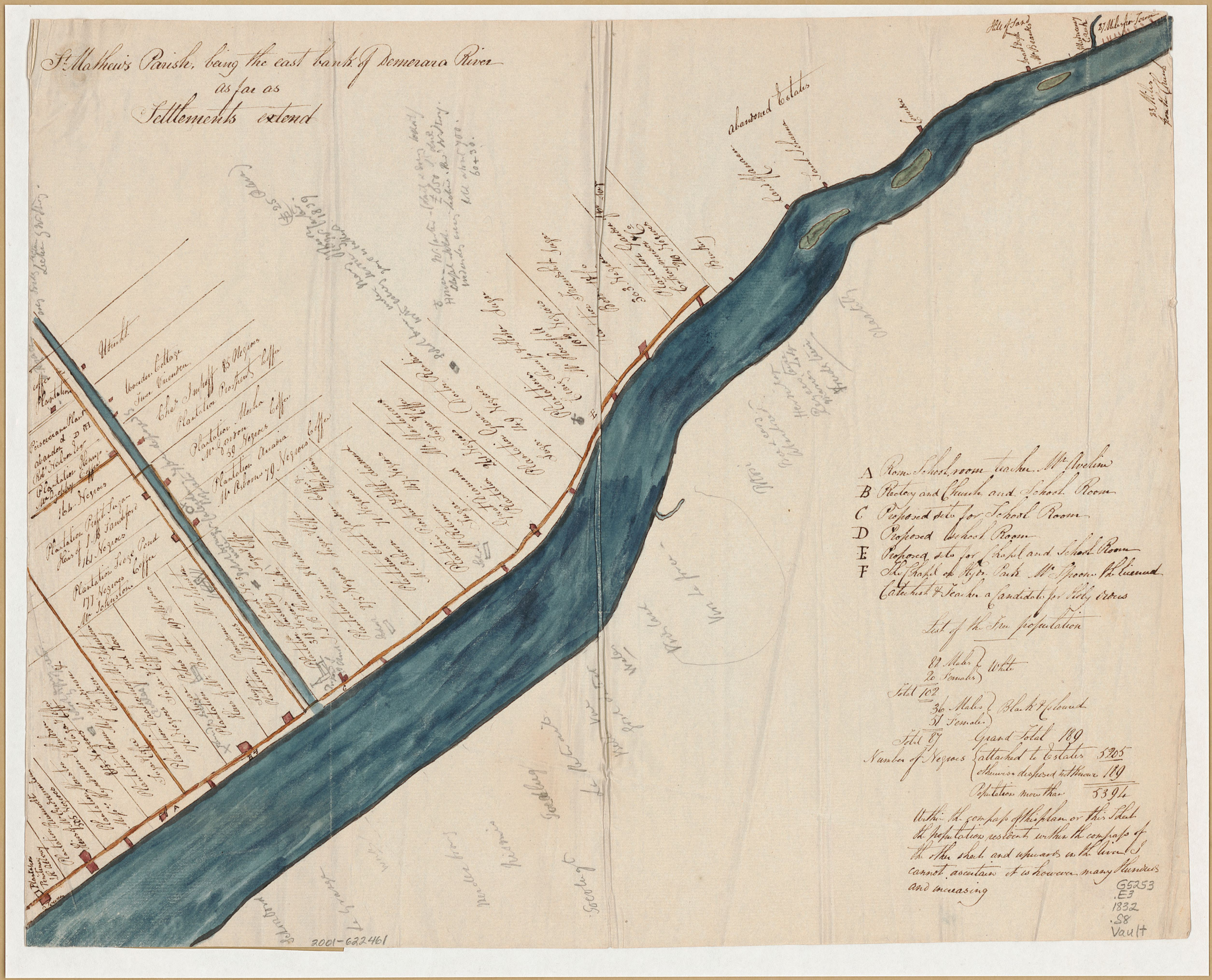 Located in East Demerara-West Coast Berbice. Attributed to Rev. Duke? Pen-and-ink, watercolor, and pencil. Watermark: J. Morbey & Co., 1832. Includes index and statistical data. Catalog: Antique maps and prints 2000, item no. 1822. Available also through the Library of Congress Web site as a raster image. Vault Acquisitions control no. 2000-68